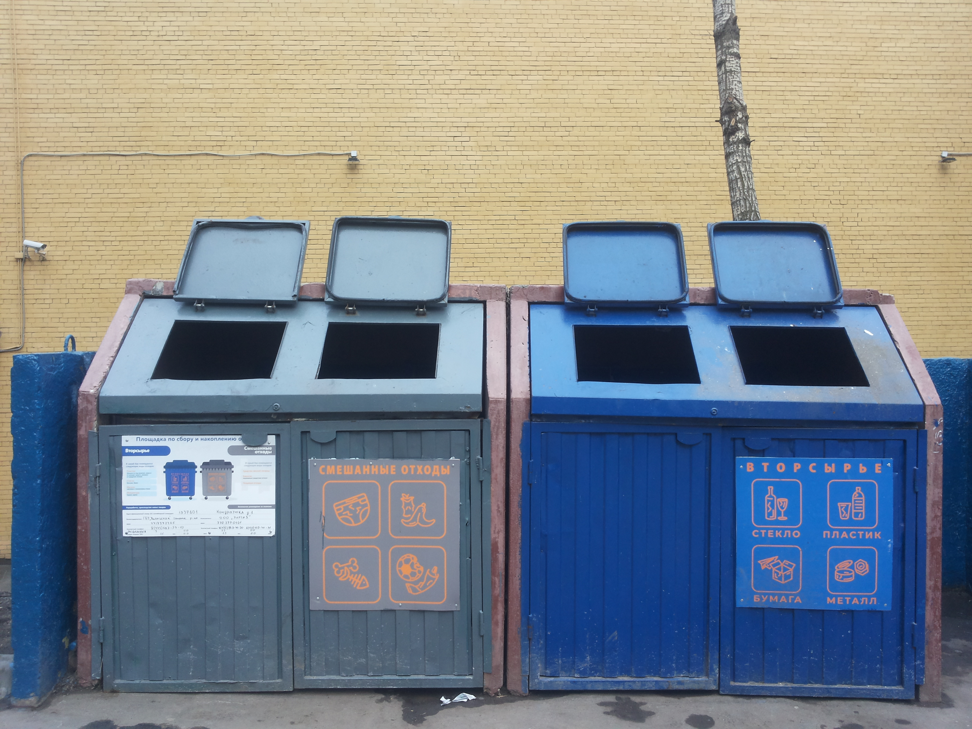 Separate waste dumpster, Moscow